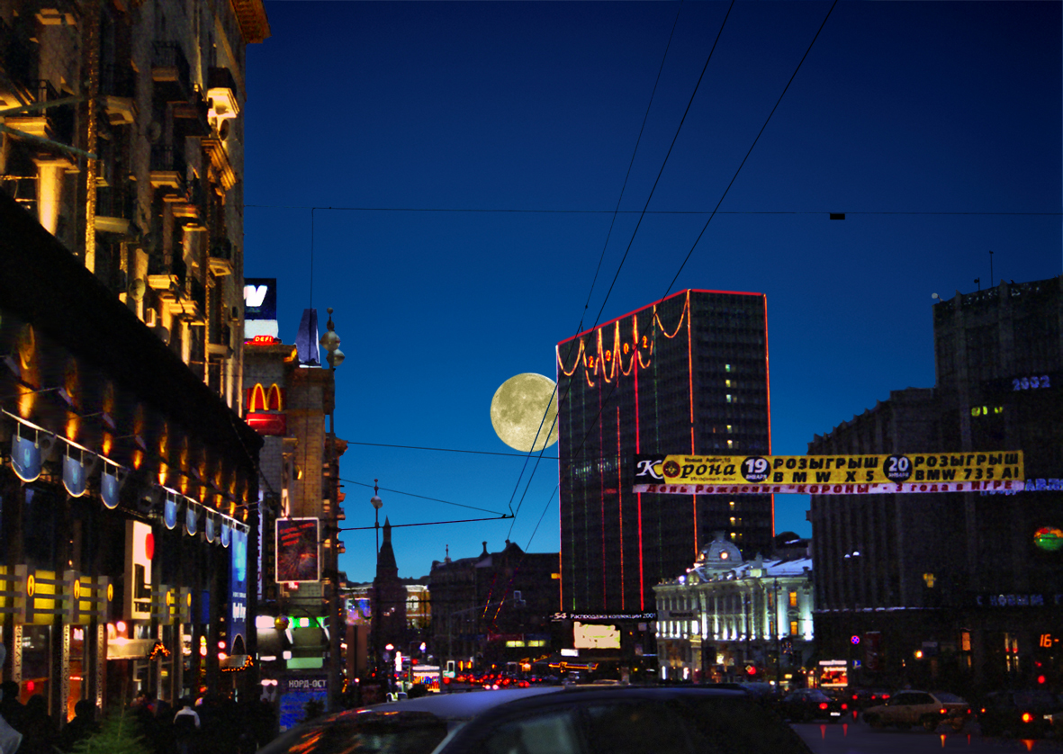 Downtown Moscow. Tverskaya street (its most central ave. in russian capital). It was several years ago, in january, after new-year celebration 2002.